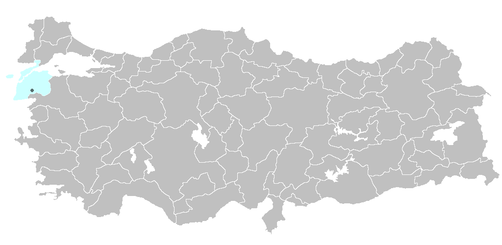 Location of the ancient settlement of on a map of Turkey. Modified from Image:BlankMapTurkeyProvinces.png, by User:AtilimGunesBaydin and under self-licensing.